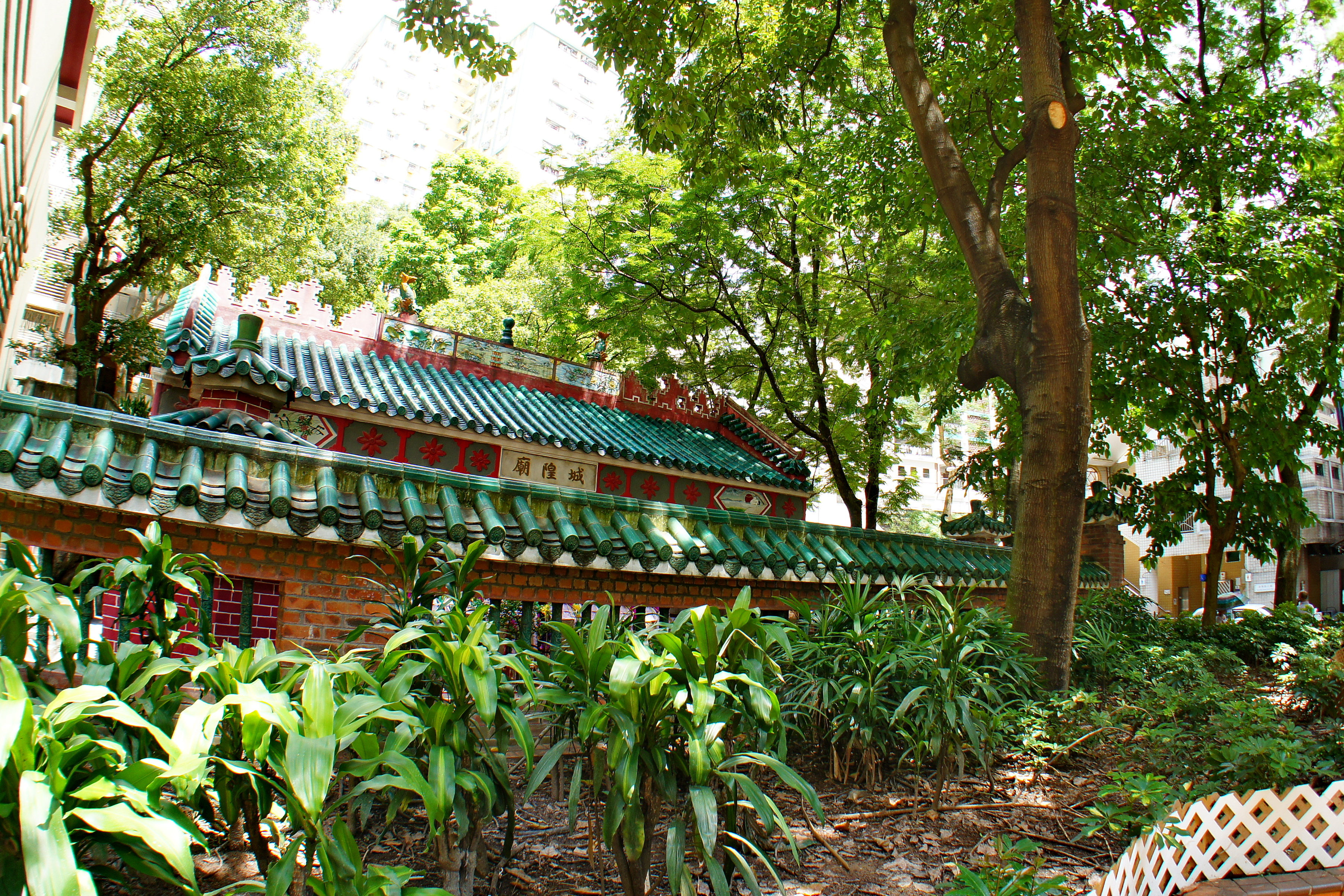 Shing Wong Temple, Shau Kei Wan, Hong Kong.